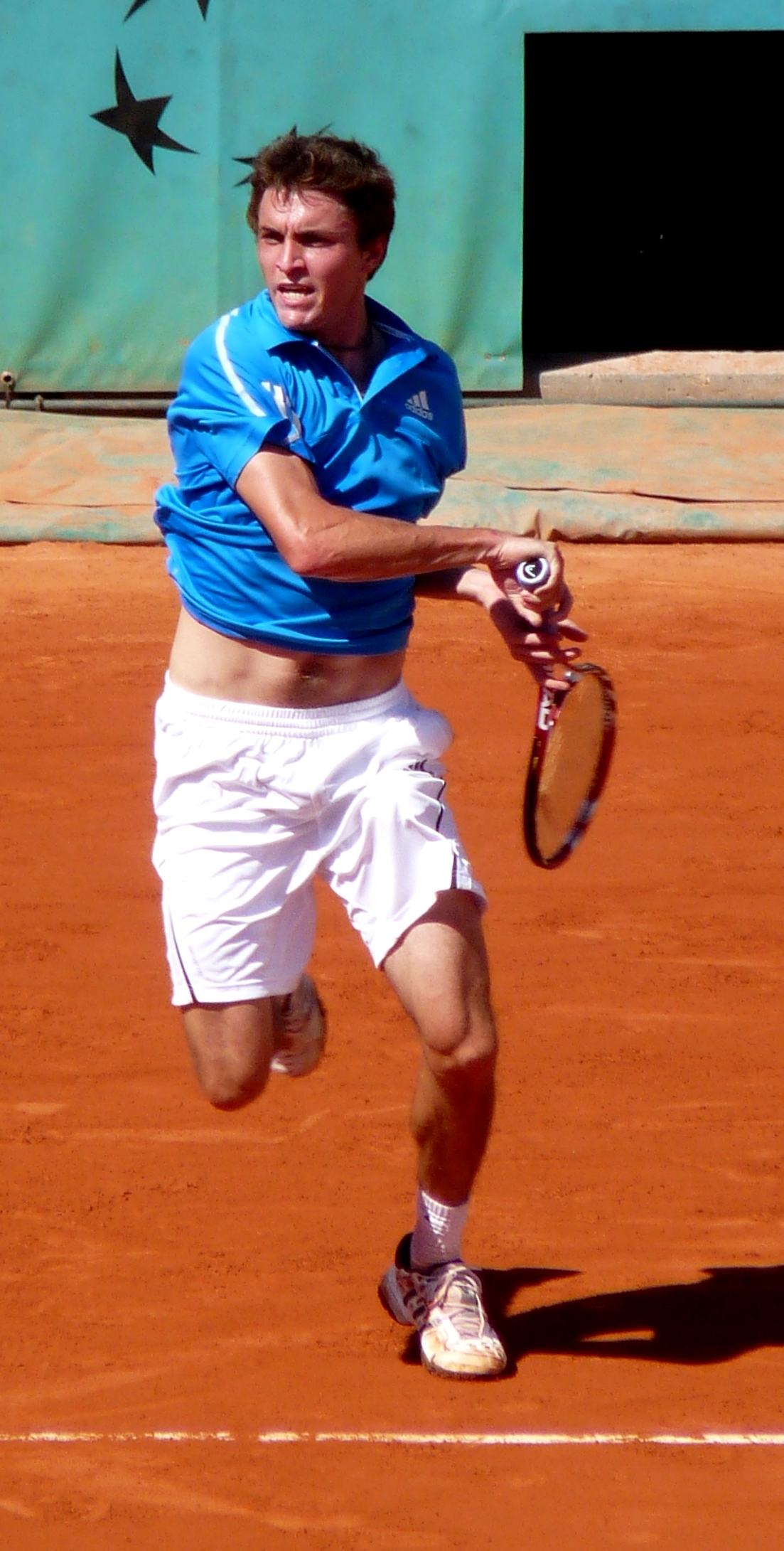 Gilles Simon against Victor Hănescu in the 2009 French Open third round